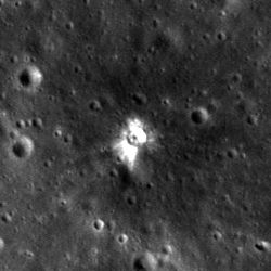 A new crater on the Moon, in southern Mare Imbrium. It was formed 17 March 2013, and corresponding flash was observed from Earth (see Robinson et al., 2014 and Suggs et al., 2014). Diameter of the crater is 18 m. The photo was made 28 July 2013 by Lunar Reconnaissance Orbiter from altitude 123 km. Sun elevation is 42.7°. Width of the image is 250 m, north is up.